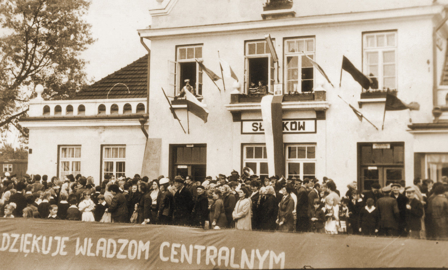 Sławków railway station 1996